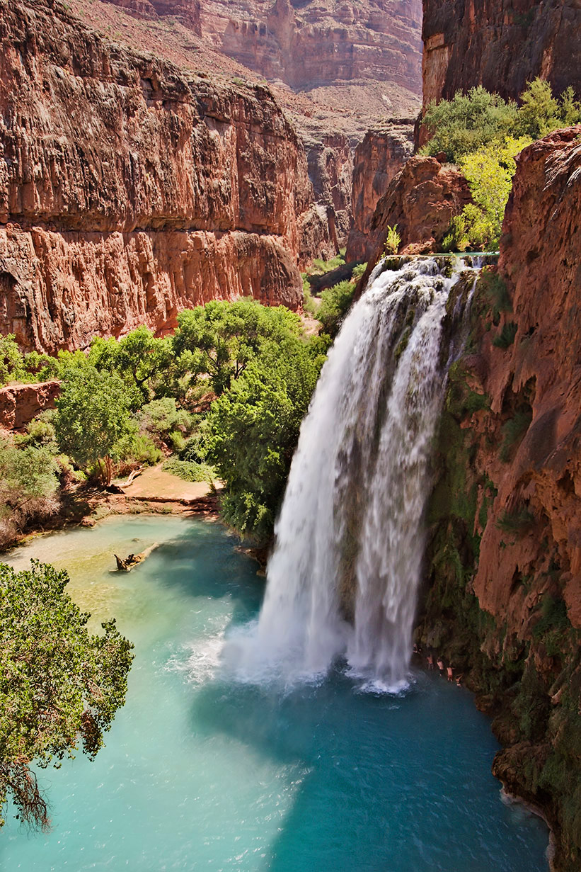 Havasu Falls near Supai, Arizona. The water is blue/green due to high concentrations of dissolved lime picked up as the water runs through the sedimentary rock of Havasu Canyon and the Grand Canyon.